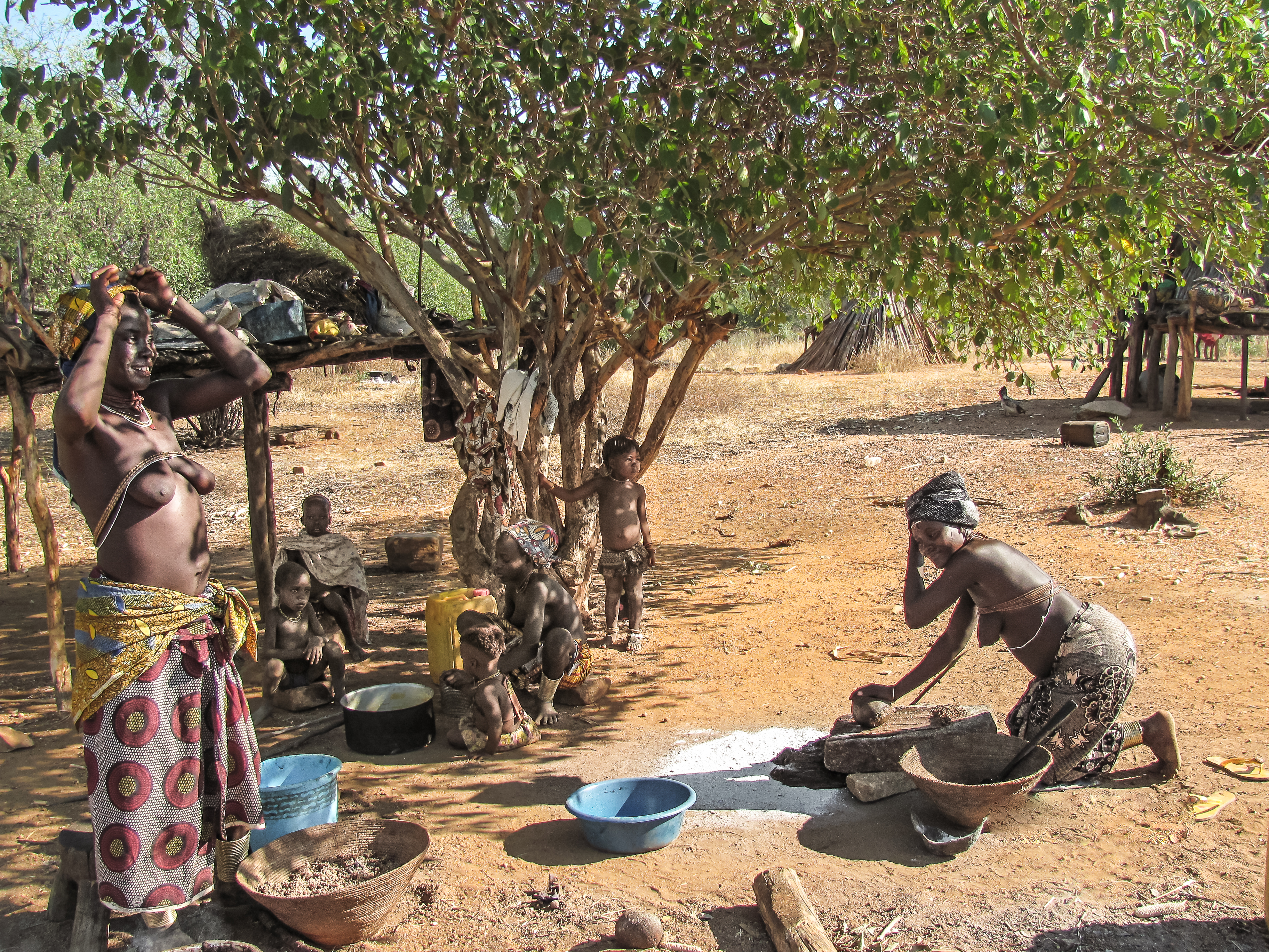 Preparing traditional products is a process that involves the family, in the villages of Namibe province (Angola) This is an image of "African people at work" from Angola